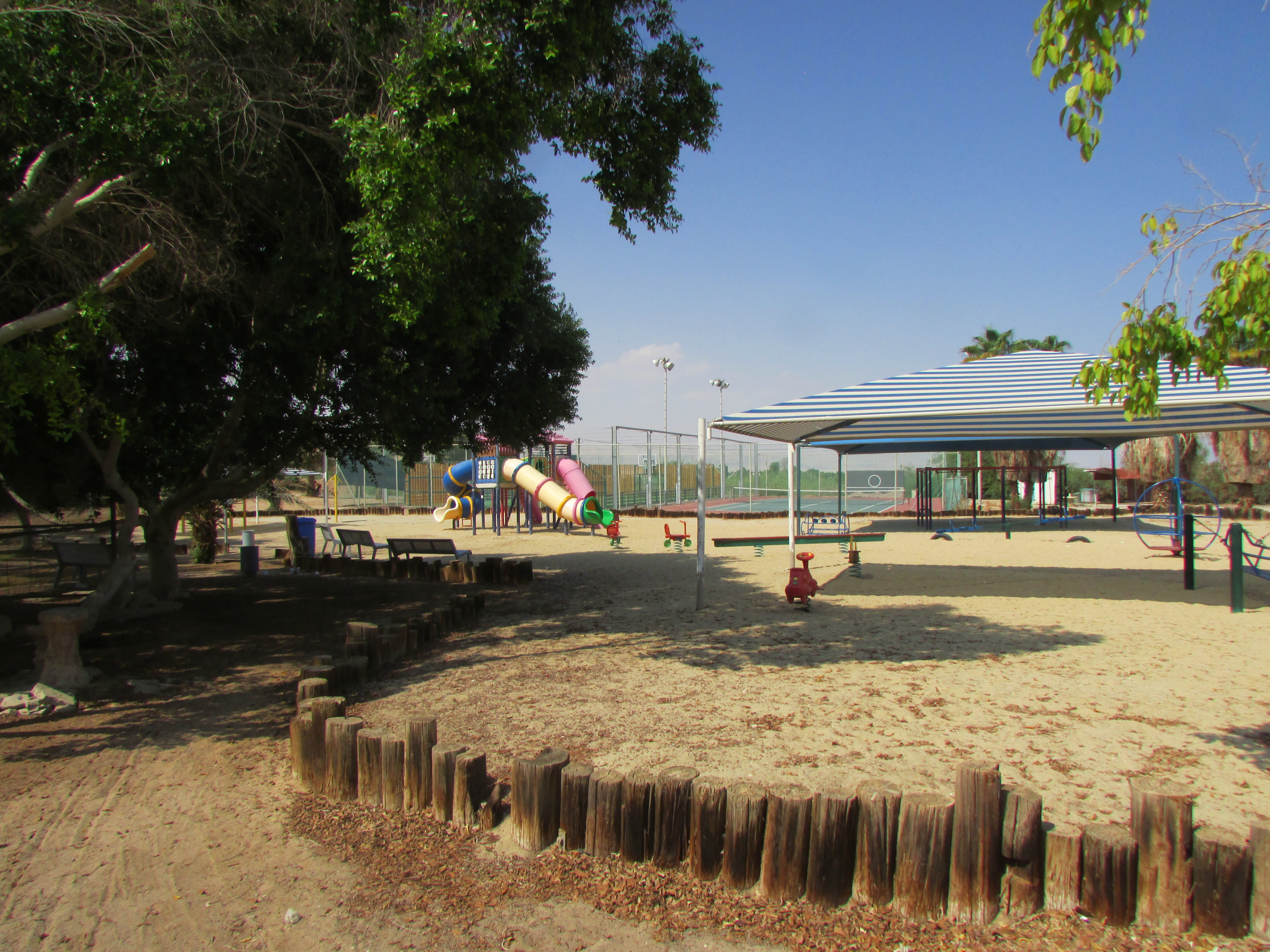 Neot HaKikar